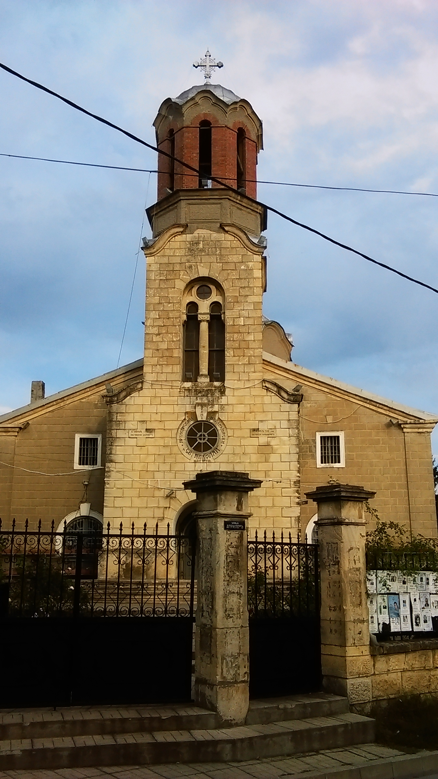 Church of St. Nickolas the Wonderworker in Razgrad